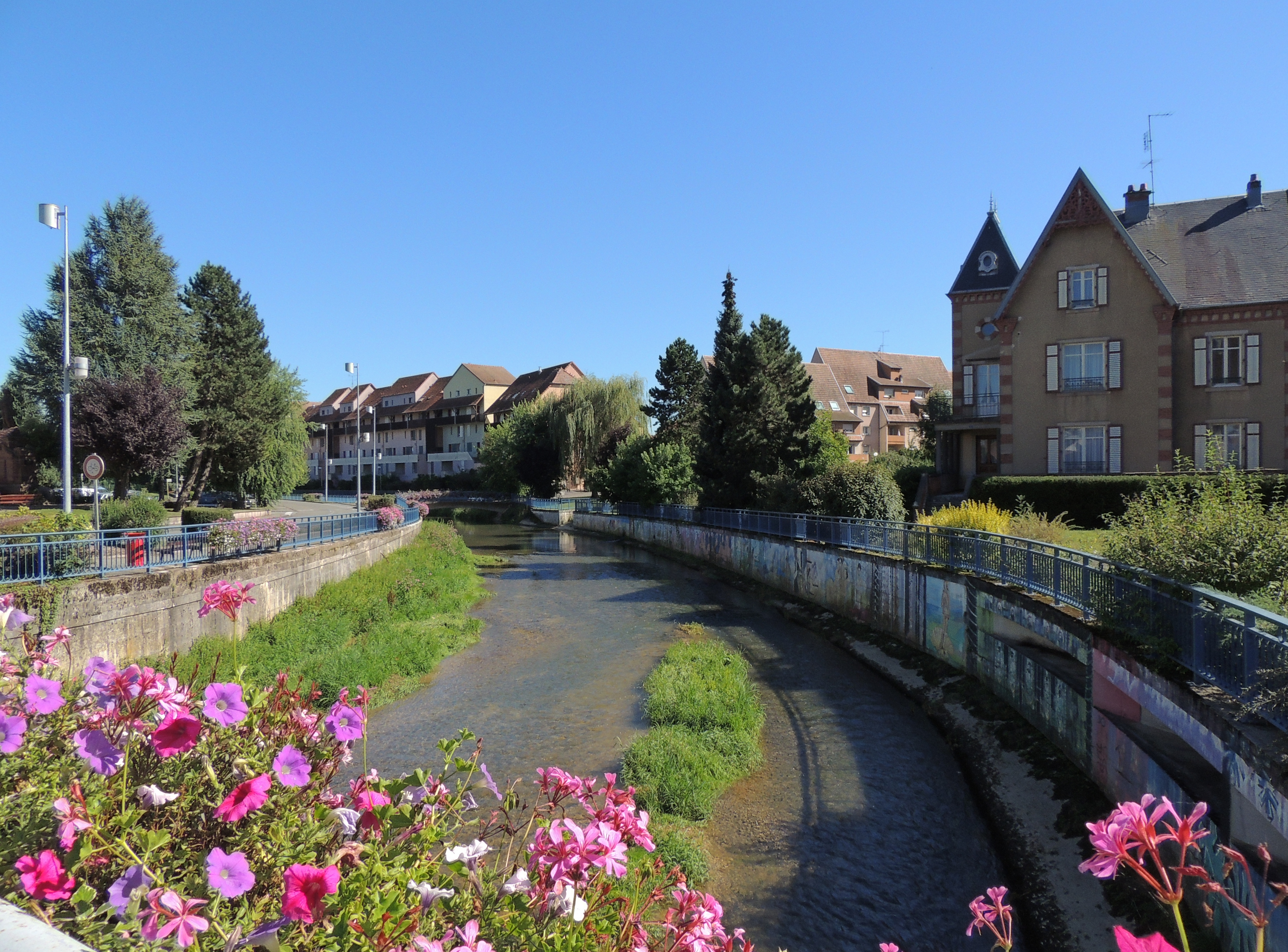 The Allaine crossing the border town DELLE.